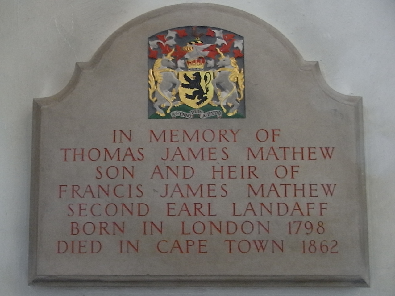 Mural memorial tablet erected 1987: "In memory of Thomas James Mathew son and heir of Francis James Mathew second Earl of Landaff born in London 1798 died in Cape Town 1862". Source: Jones, Anthony L., Heraldry in Glamorgan, South Glamorgan No.3, Llandaff Cathedral, 1987 (Cathedral booklet), p.9